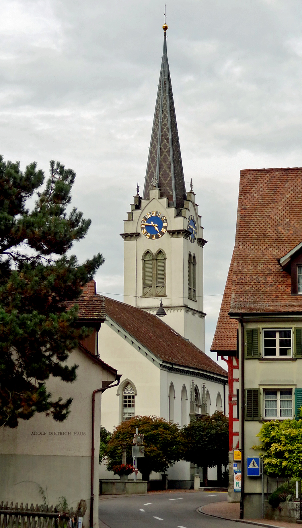 Street view of the church of Berlingen TG, Switzerland.